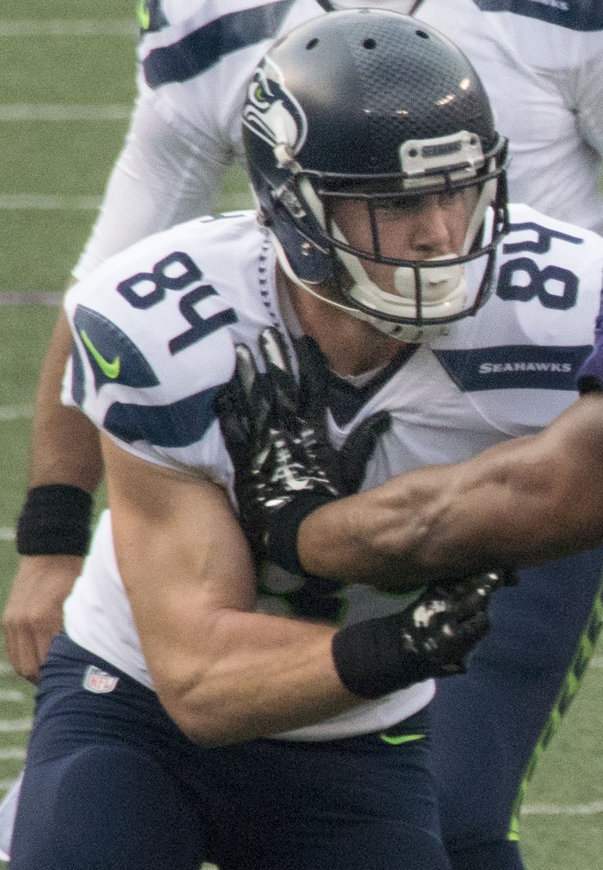 Seahawks at Ravens 12/13/15